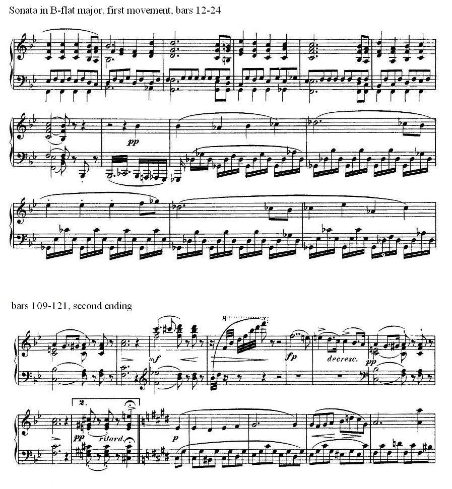 Two places in the B-flat sonata with sudden harmonic shifts.